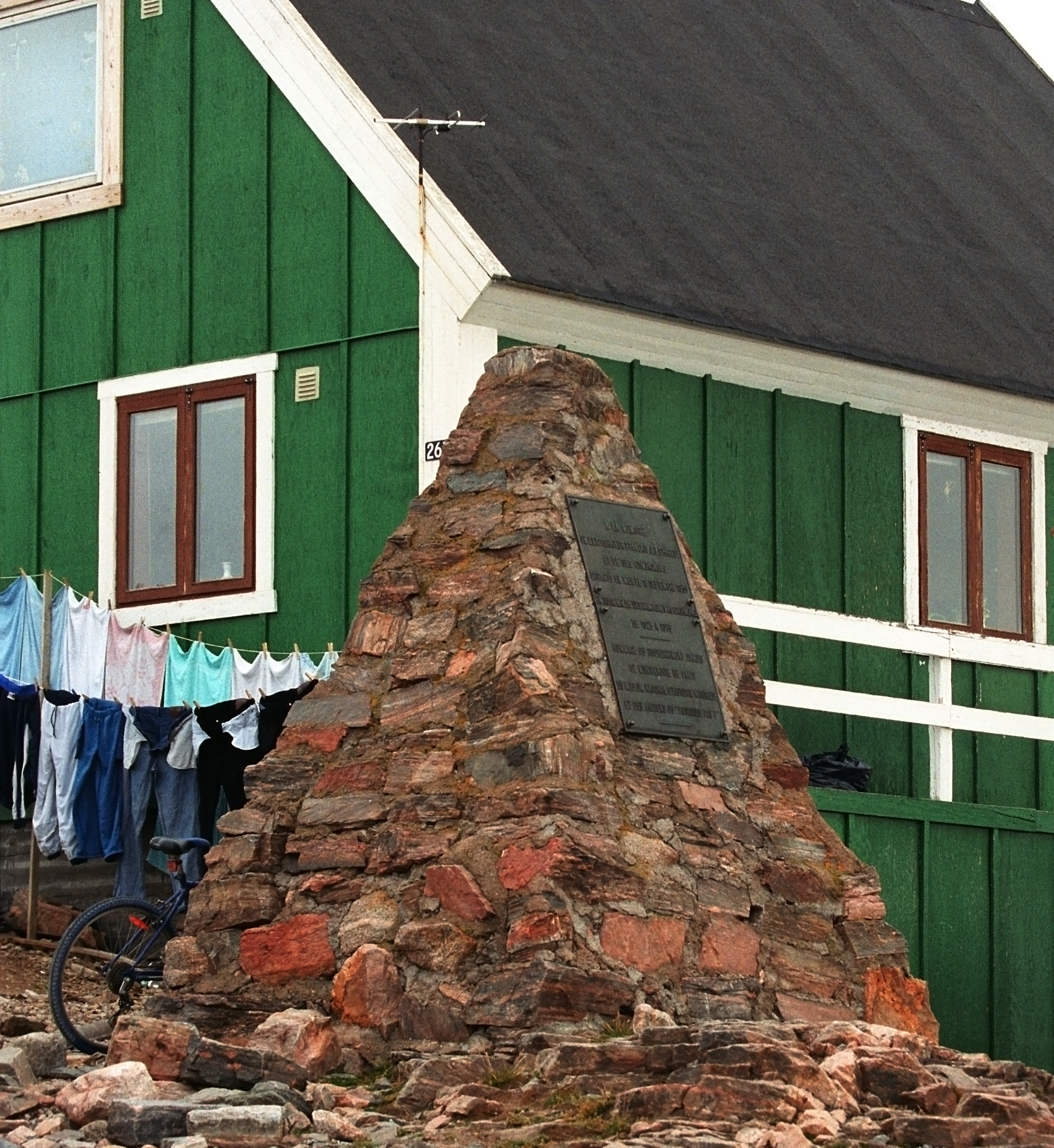 Board in memory the french explorer Jean-Baptiste Charcot and his companions. Ittoqqortoormiit, Greenland